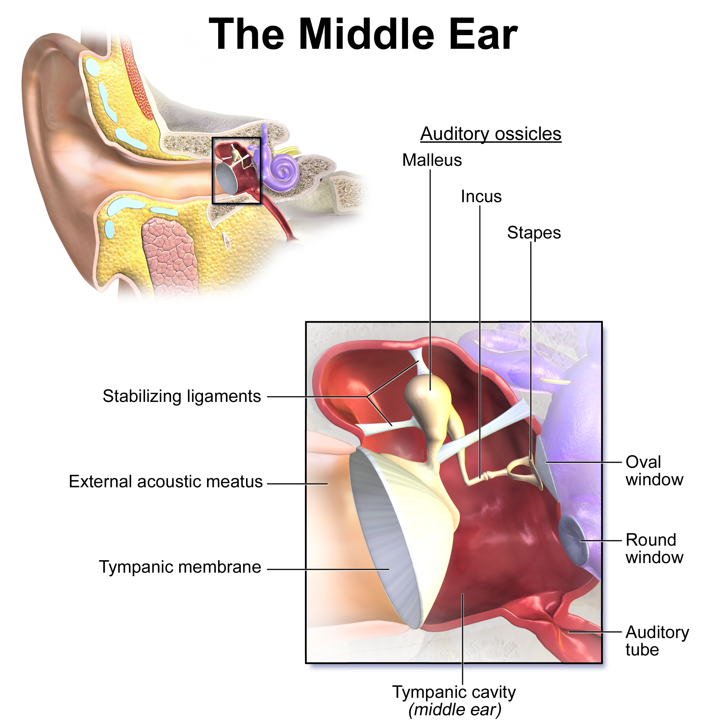 Middle Ear Anatomy. See a related animation of this medical topic.